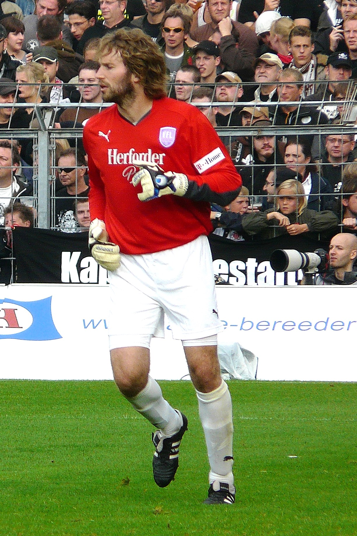 Stefan Wessels as Player from VfL Osnabrück